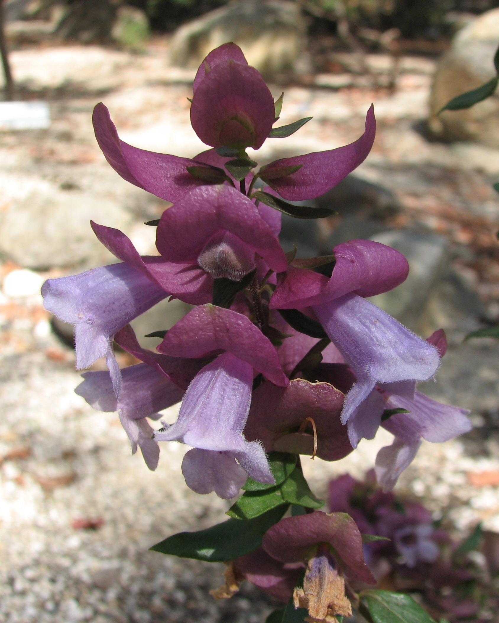 Prostanthera magnifica (cultivated, labelled), Maranoa Gardens, Balwyn, Victoria, Australia